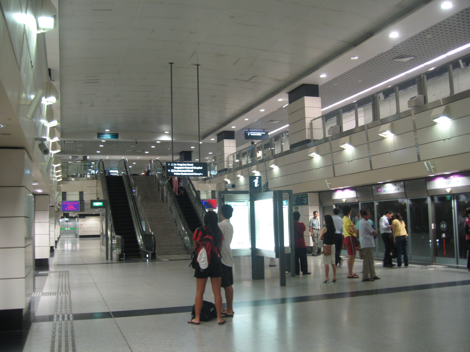 Outram Park MRT Station.